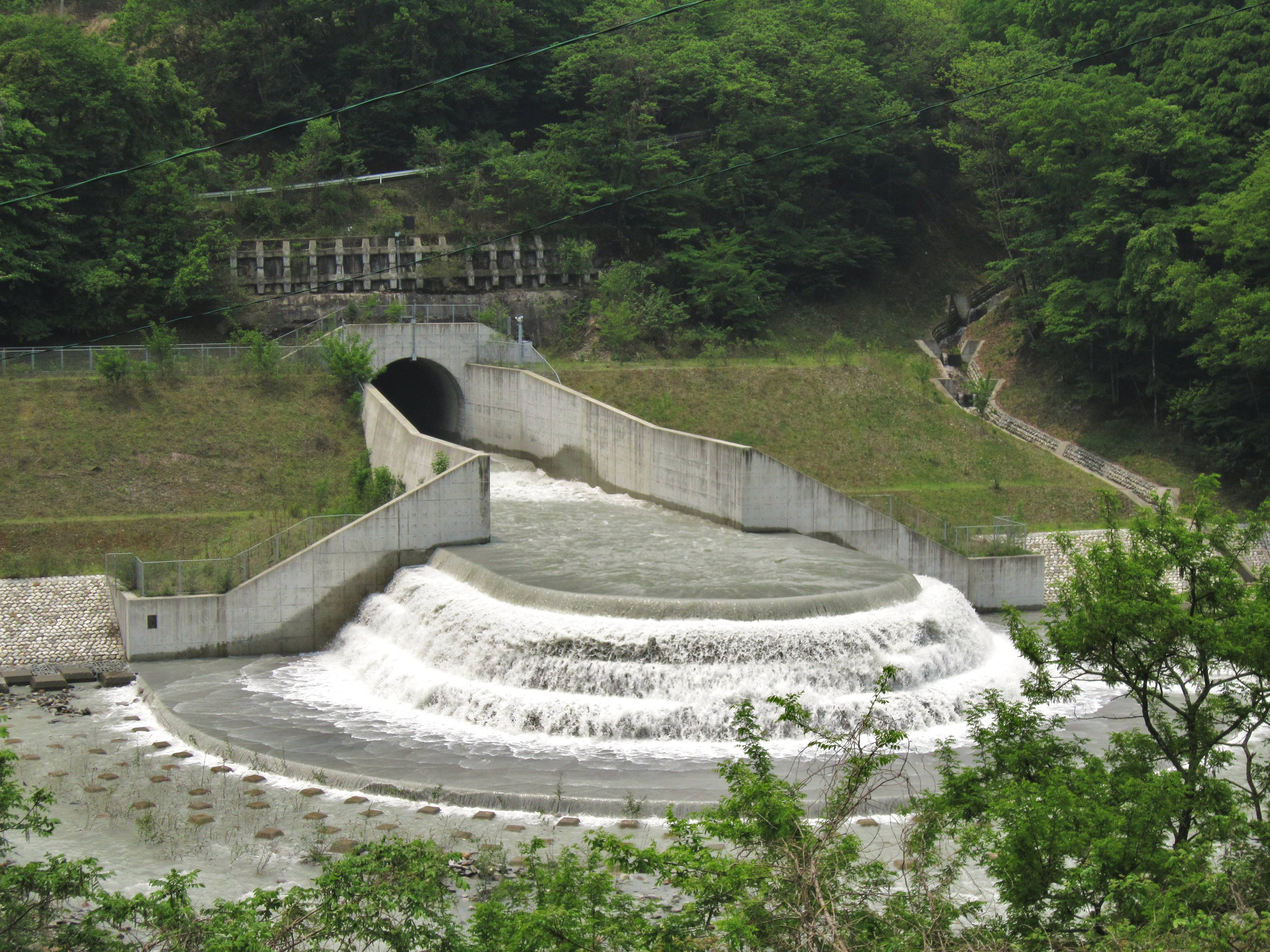 Miwa Dam bypass spillway.